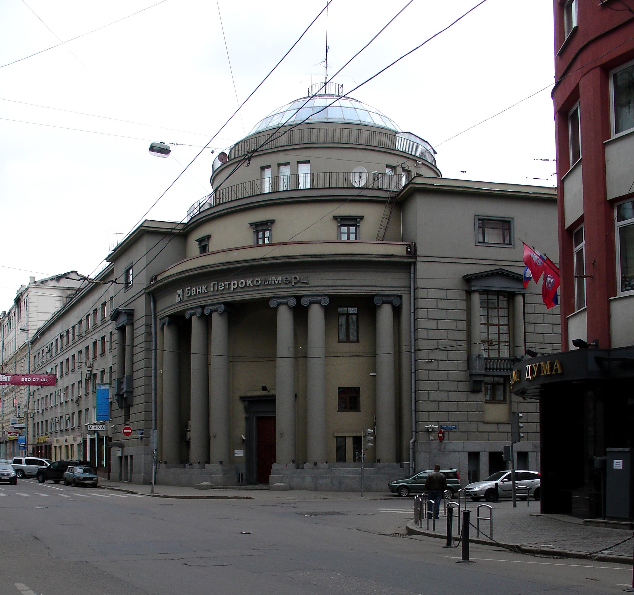 Petrovka Street, Moscow, corner of Rakhmanovsky Lane. Bank building by Illarion Ivanov-Schitz. Red building on the right is Moscow City Duma (legislature).